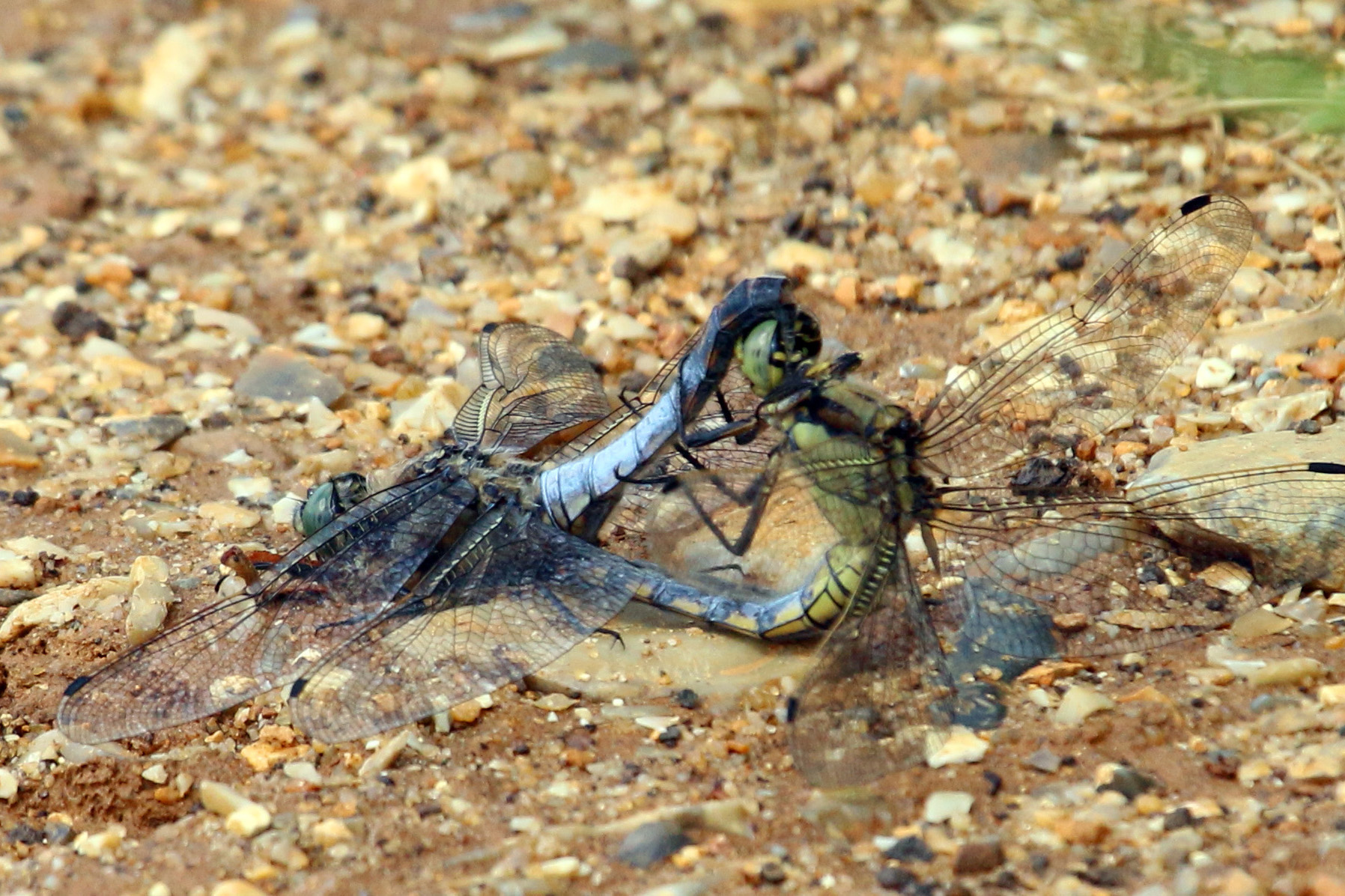 Black-tailed skimmer dragonflies (Orthetrum cancellatum) mating wheel